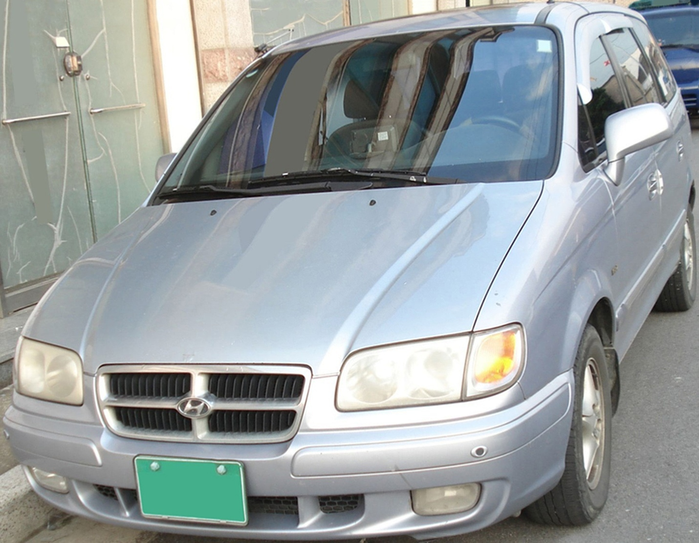 Hyundai Trajet XG